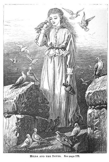 "Hilda and the Doves", an illustration from Works of Nathaniel Hawthorne: The Marble Faun by Nathaniel Hawthorne. Boston: Houghton, Mifflin and Company, 1888: vol. 2., p. 2.